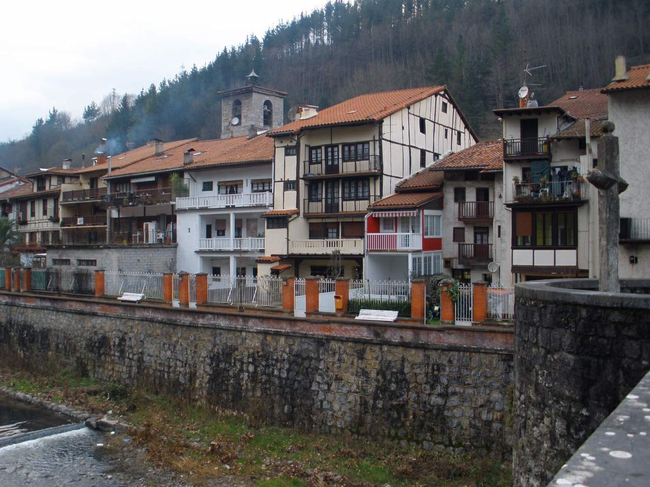 Alegia (Guipúzcoa)